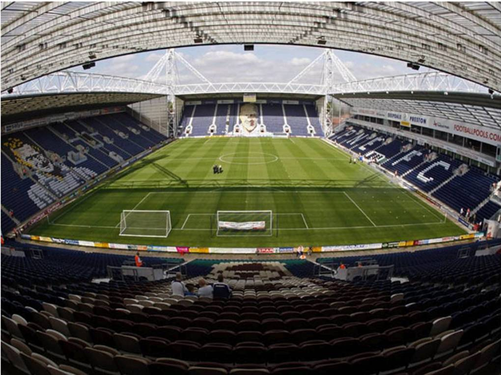 Deepdale Stadium, Preston, England. Home of Preston North End F.C. and England's National Football Museum